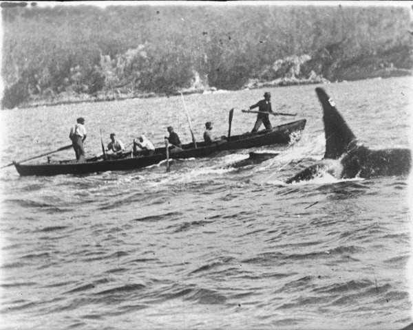 Still from early documentary film, first shown publicly in 1912. In the foreground is a killer whale (Orcinus orca) named Old Tom, swimming alongside a whaling boat that is being towed by a harpooned whale (out of frame to the right). A whale calf can be seen between Old Tom and the boat. The whalers were based in Eden, New South Wales, Australia. Sources for description: [1], [2]